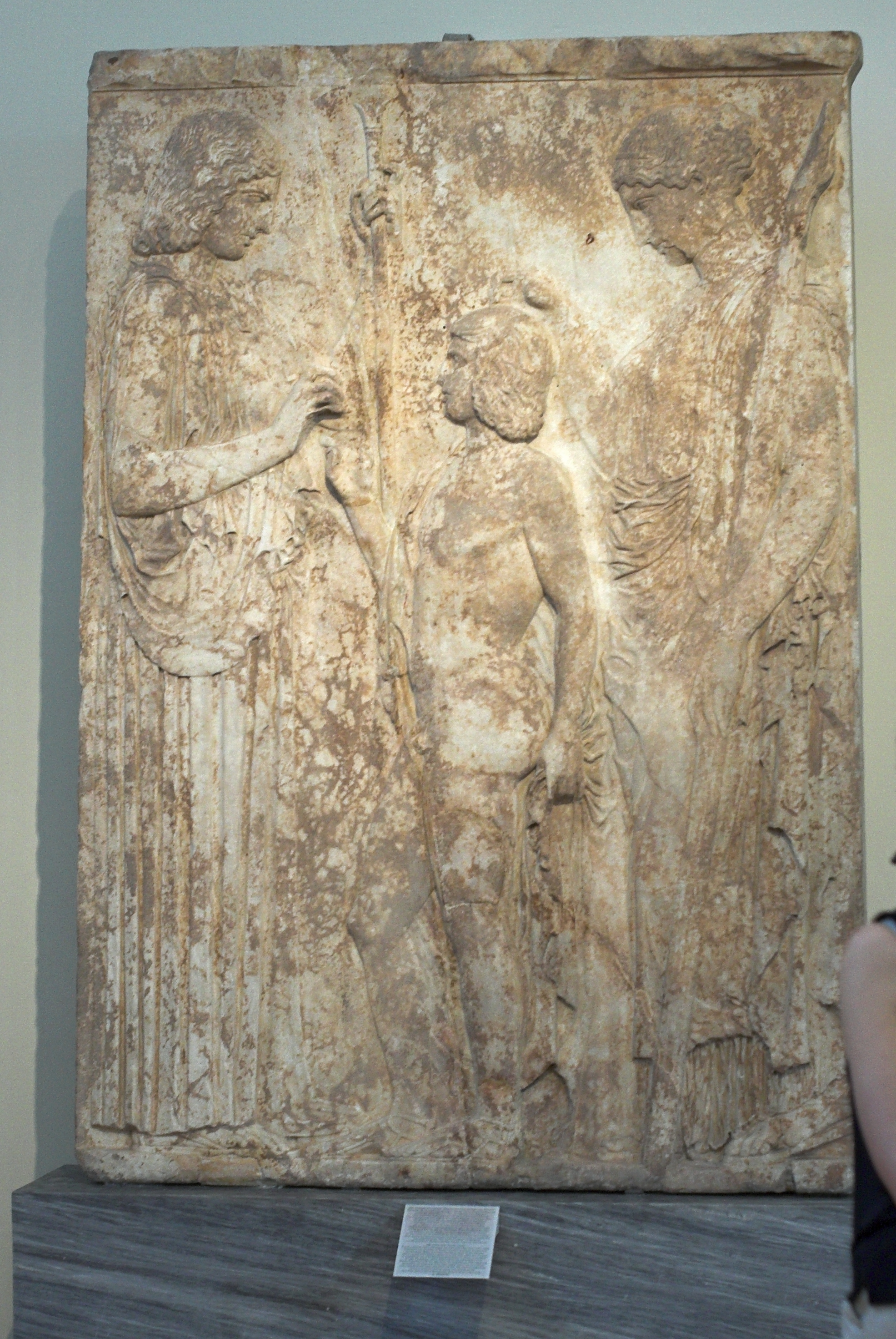 Votive relief from Eleusis: Demeter left, middle Triptolemos, right Kore (Persephone). Pentelic marble, 440-430 BC. National Archaeological Museum of Athens N 126.